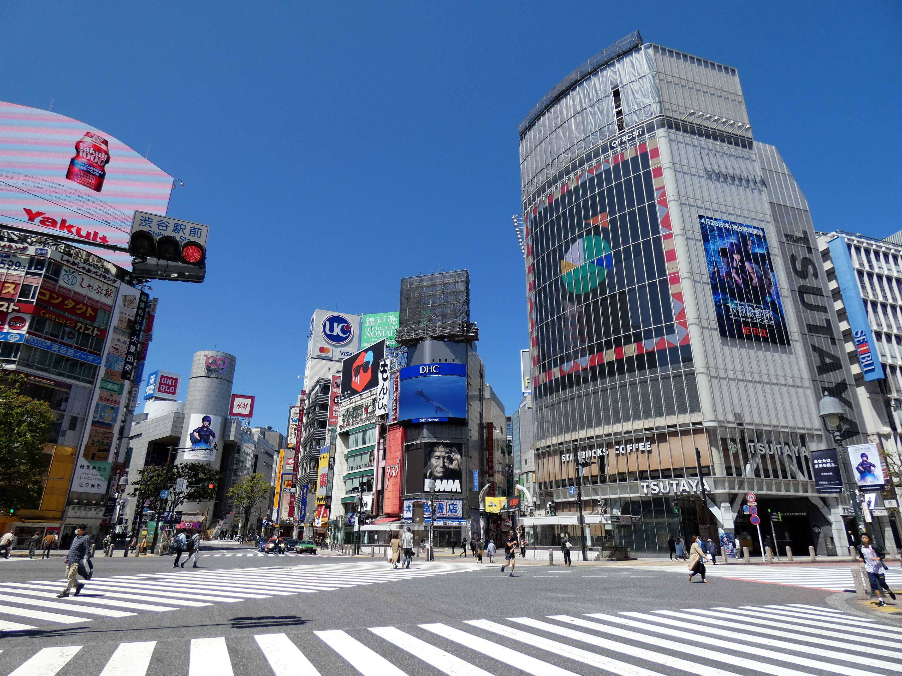 Shibuya Crossing (Tokyo, Japan) under the state of emergency for coronavirus pandemic